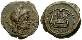 Campania, Capua. 216-211 BC. Æ 13mm (1.82 g) (semuncia ?). Head of Telephos right, wearing Phrygian cap Trophy of arms. In exergue (KAPU) in Oscan alphabet (retrograde) SNG ANS -; SNG Morcom -; HN Italy 509. Good VF, brown patina, some obverse roughness. Very rare.